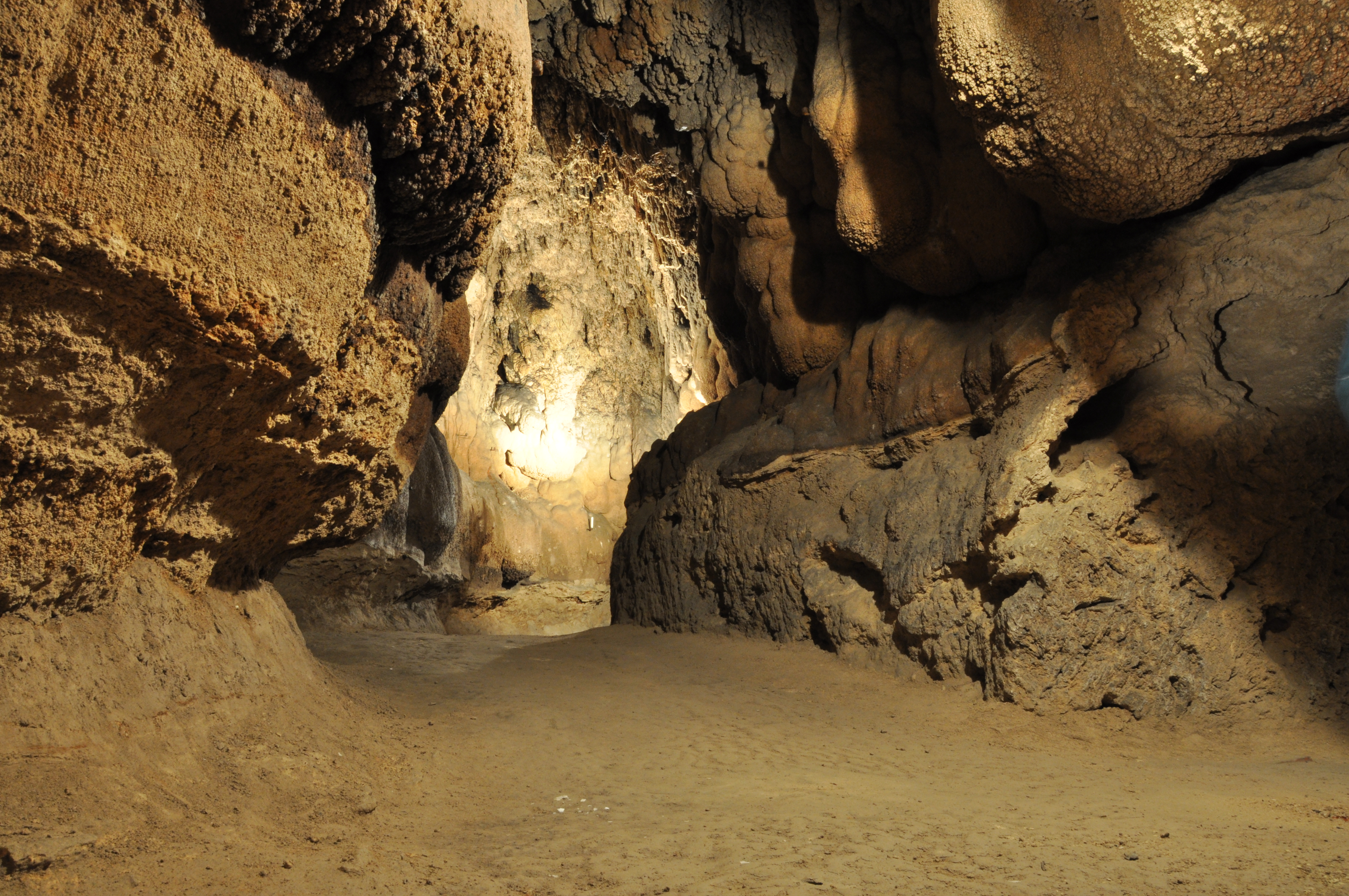 Olga Cave